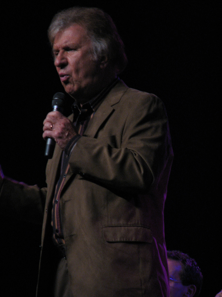 Bill Gaither (gospel singer)